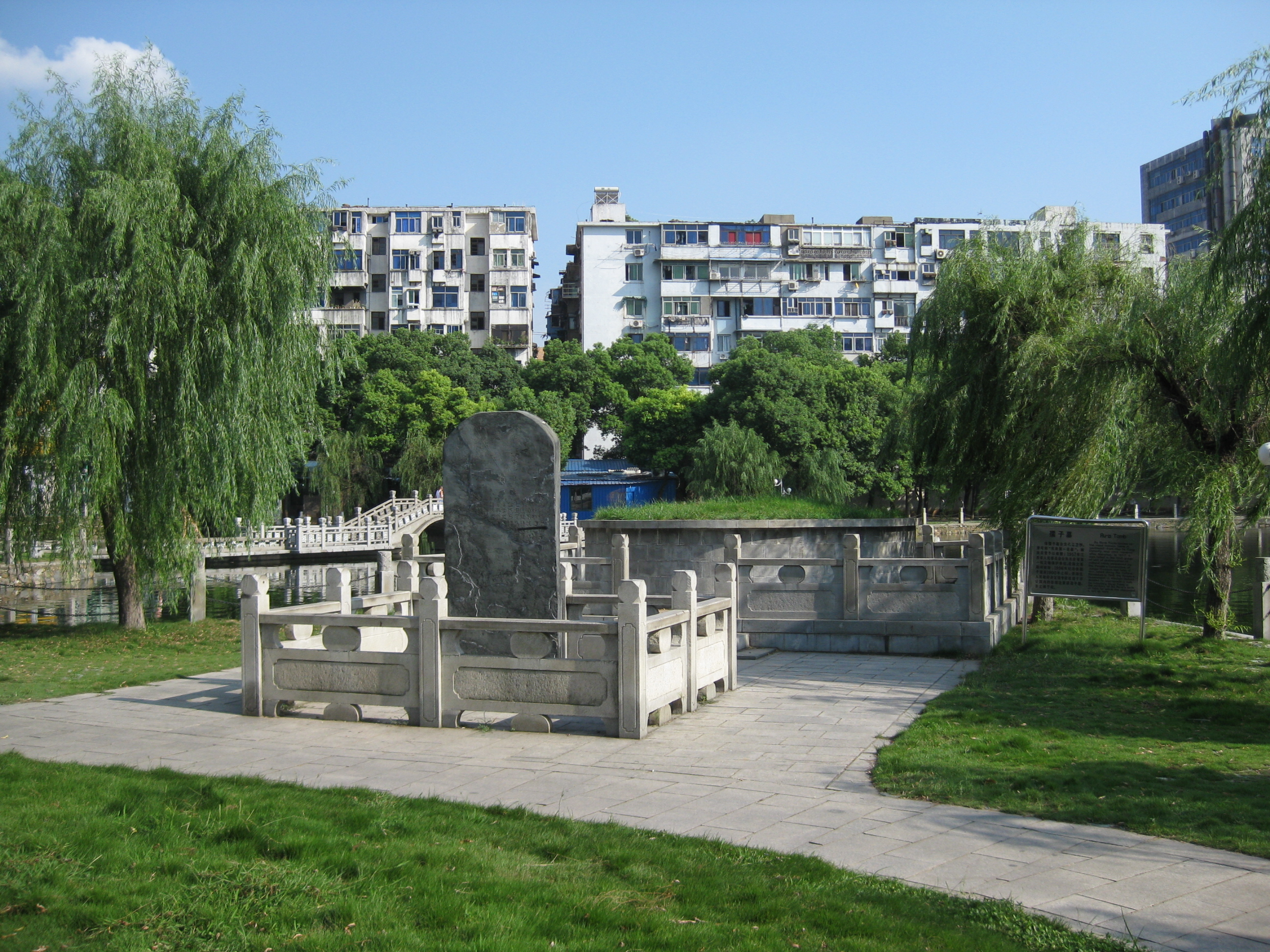 Tomb of Xu Ruzi